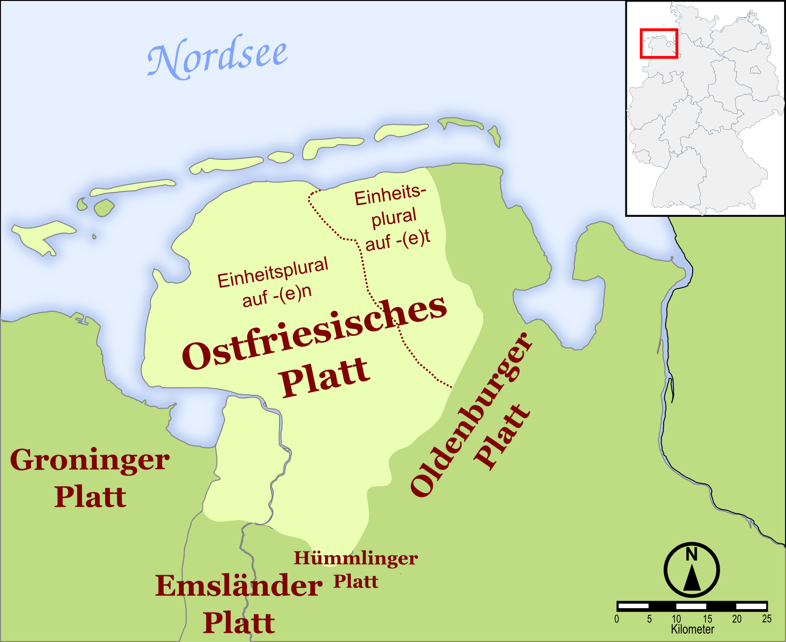 Location of East Frisian Low German